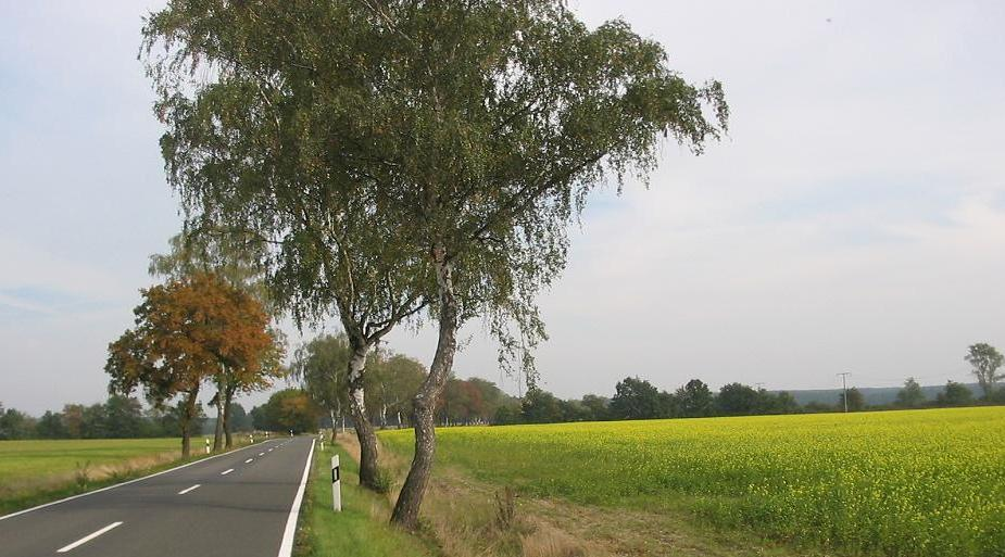 Way from Görzke to Dangelsdorf, Benken. Görzke is a municipality in the district Potsdam Mittelmark, state Brandenburg, Germany. The village appertains to the nature park Naturpark Hoher Fläming.